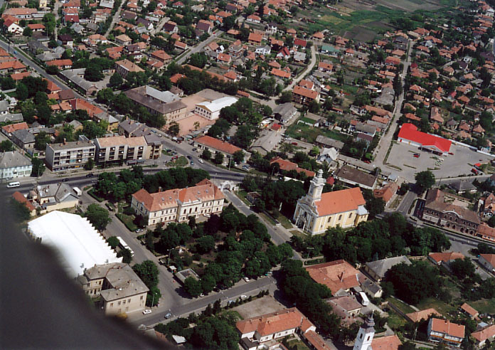 Kossuth square. Downtown of Abony - Hungary - Europe